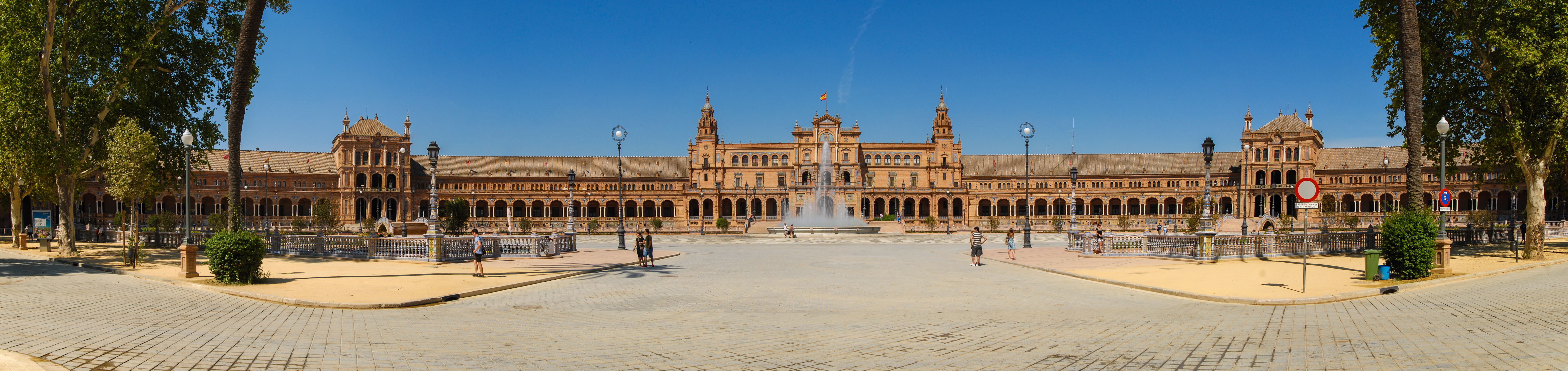 Panorama of Plaza de España in Seville